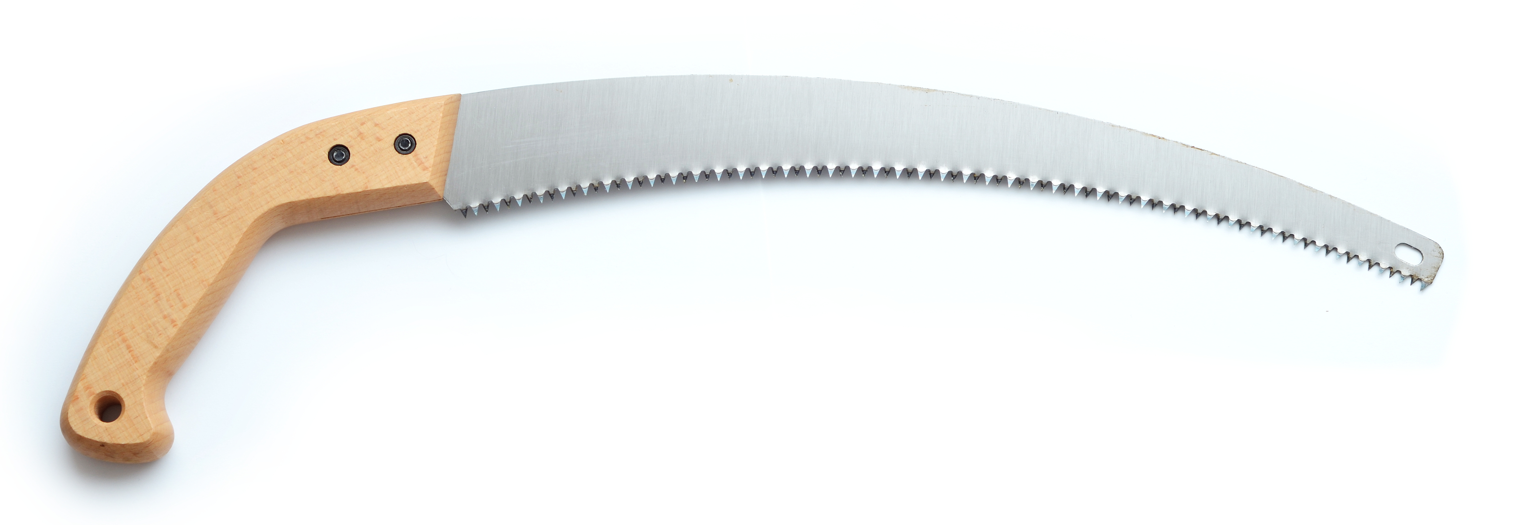 Branch saw with laser hardened saw teeth